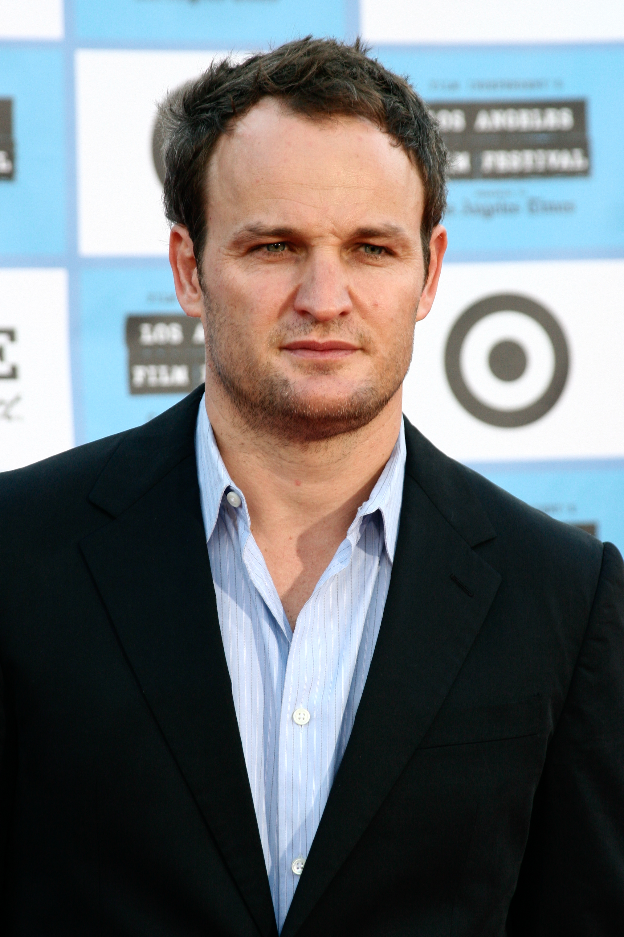 Actor Jason Clarke (John "Red" Hamilton) at the red carpet premiere of Public Enemies. It took place at the Mann Village Westwood during the 2009 Los Angeles Film Festival.